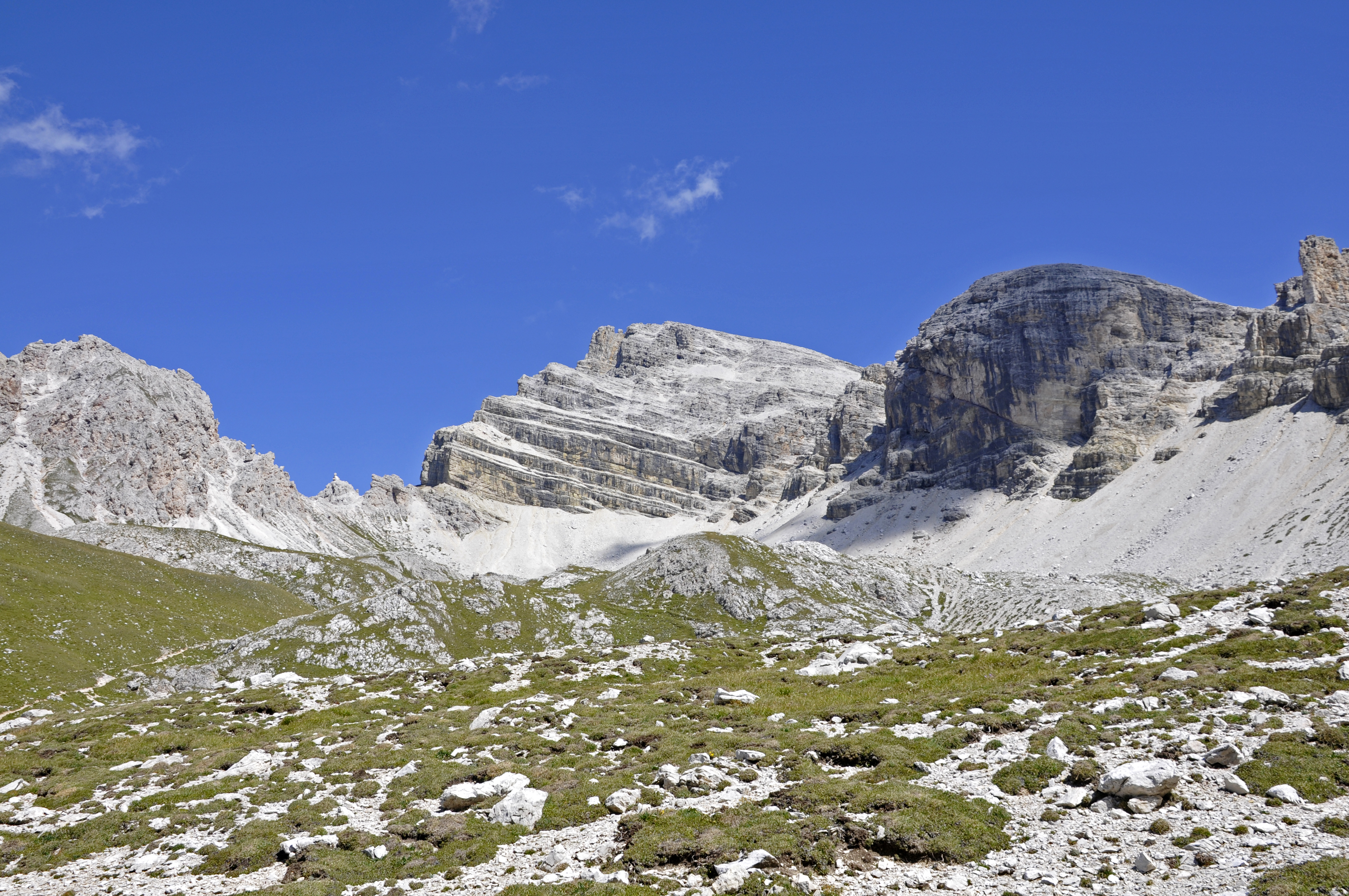 The Val dla Roa and the Piz Duleda from Forces de Siëles